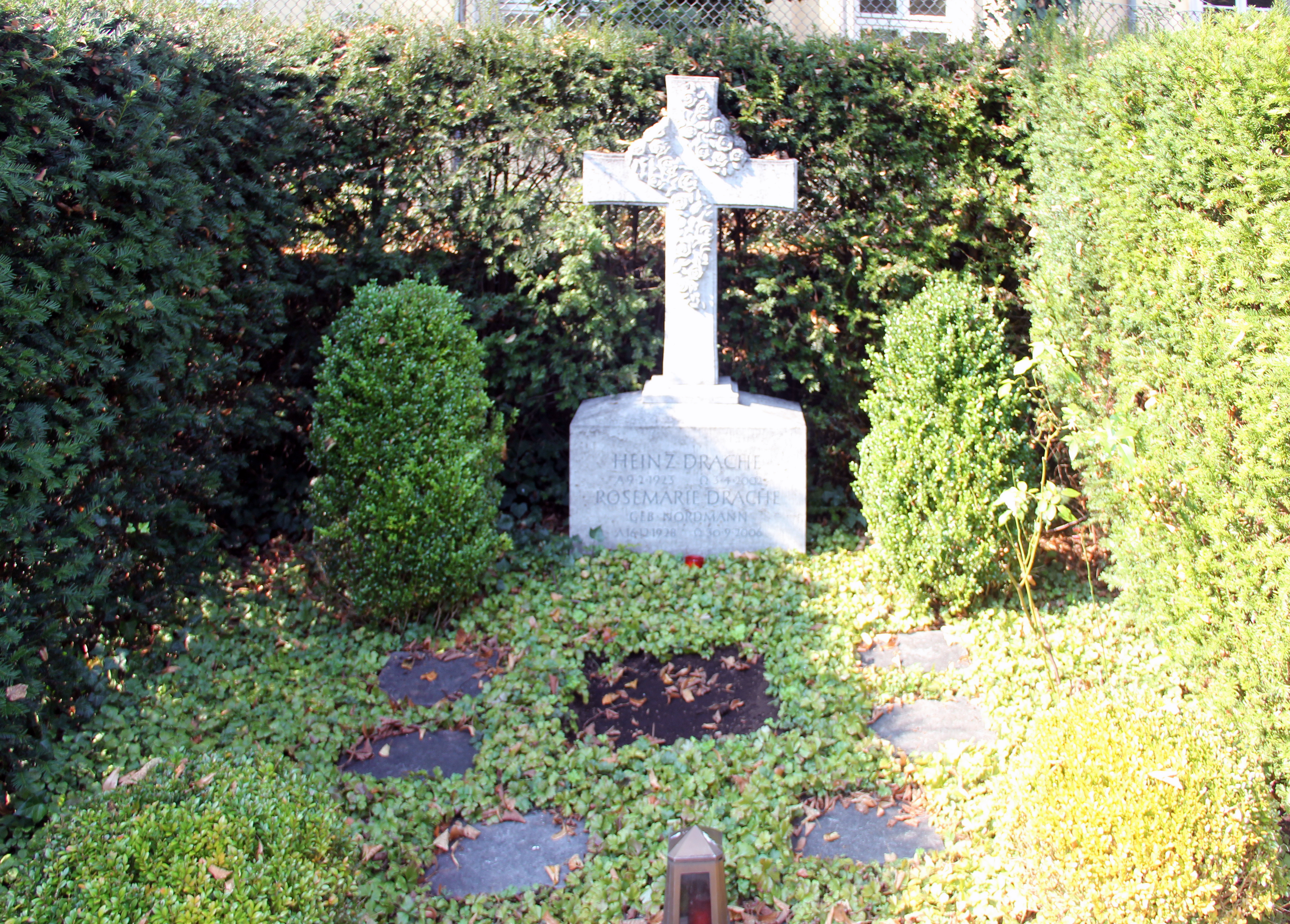 Grave, Heinz Drache, Königin-Luise-Straße 57, Berlin-Dahlem, Germany